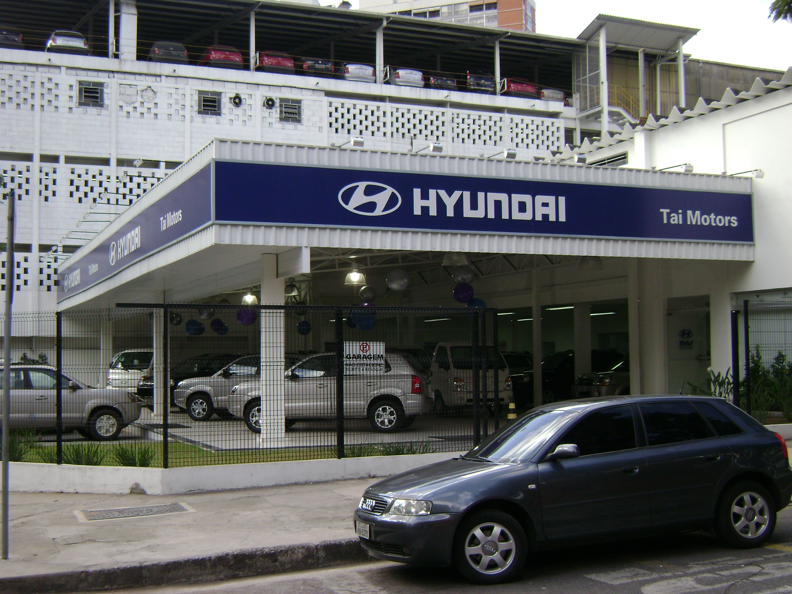 Filial da Hyundai em Belo Horizonte.